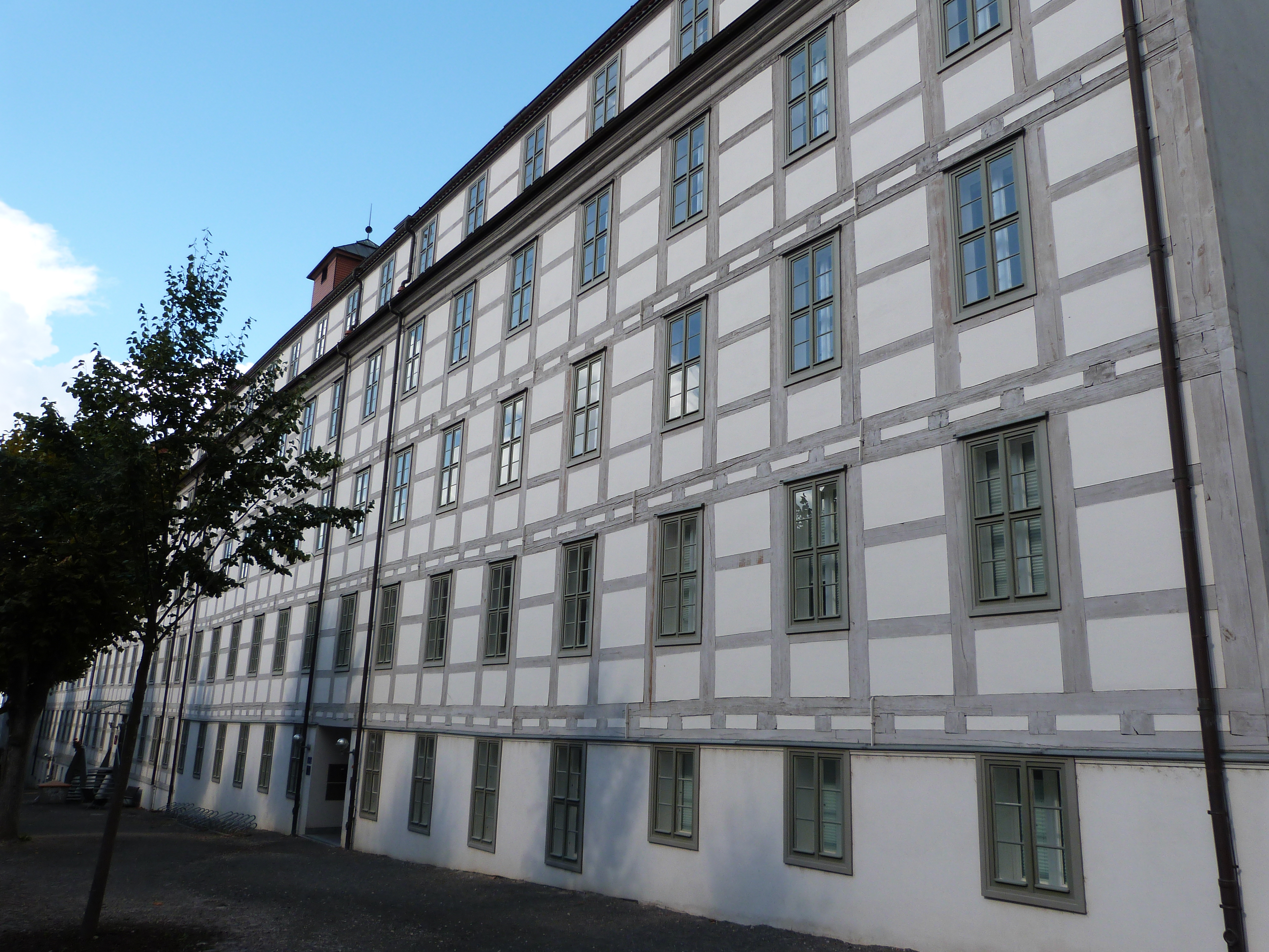 Houses 8-13, so called "Long house" (dormitory), Francke foundations in Halle (Saale), today Evangelical convict (houses 8 and 9) and dormitory